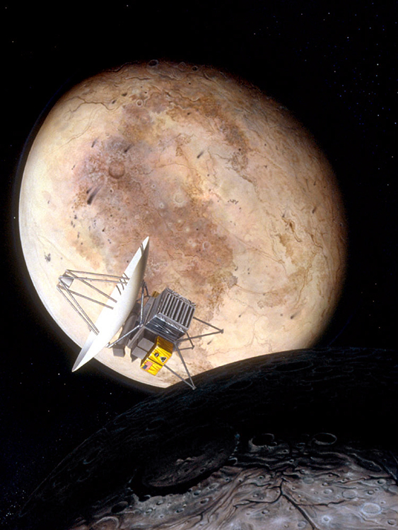 The final unexplored frontier in the solar system, Pluto and its satellite Charon could be visited by a robotic flyby mission as early as 2006. This low-cost mission would take advantage of both existing hardware and new advanced technologies to develop a lightweight autonomous spacecraft. With a focused science payload, the mission can reach the Pluto system on a fast direct trajectory while Pluto’s atmosphere is still active during its current perihelion passage inside the orbit of Neptune.